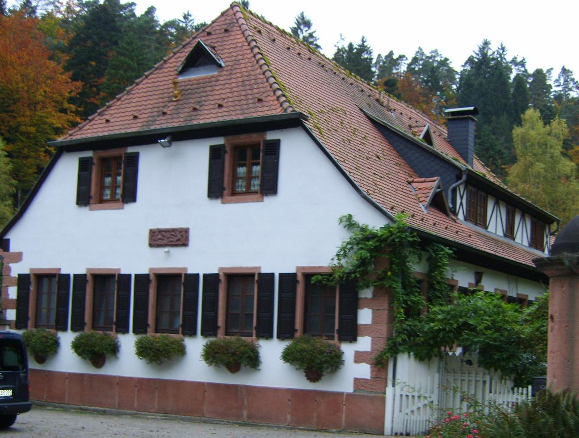 forest house